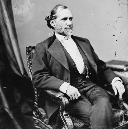 Richard T. Merrick (Chicago lawyer and judge)